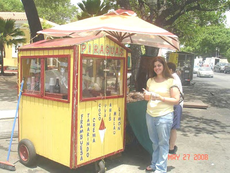 Nilda Santiago, Tony the Marine's daughter, poses in front of a "Piraqua" cart in Puerto Rico.